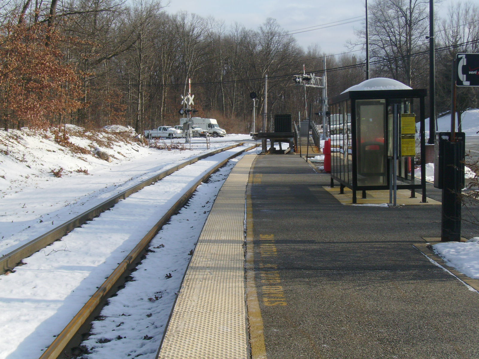 The Mount Olive New Jersey Transit station facing eastward towards Netcong station.